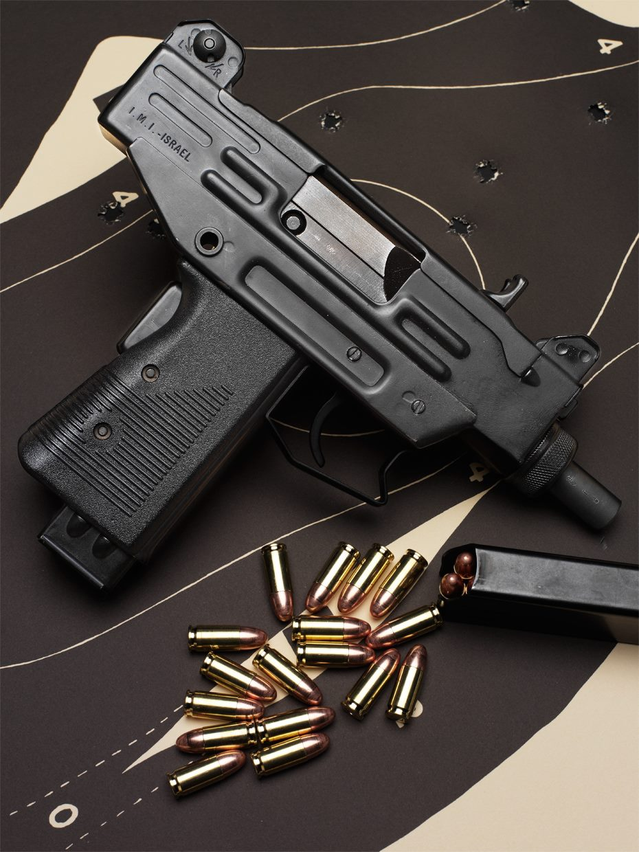 UZI pistol